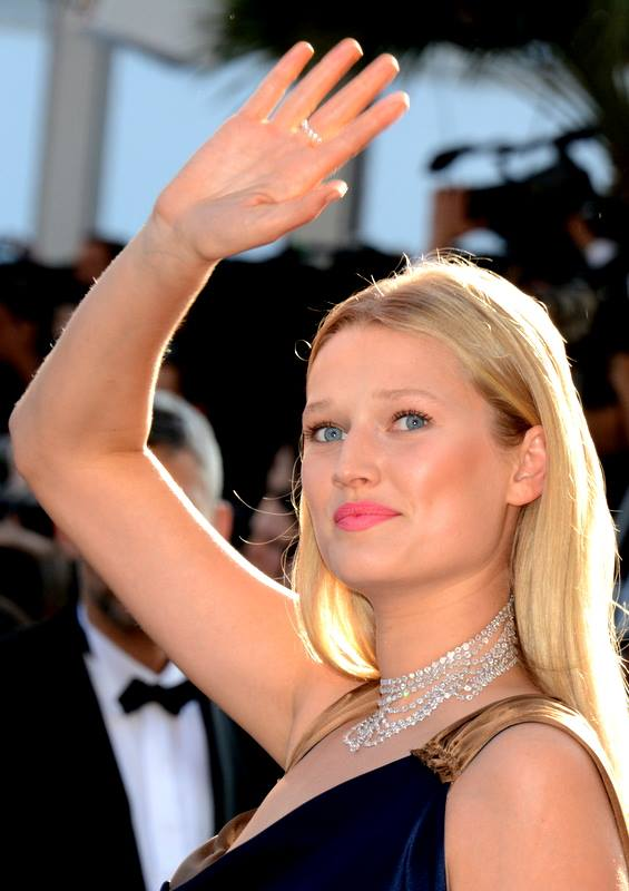 Toni Garrn at the Cannes film festival